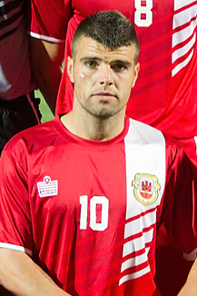 Gibraltarian football player, Liam Walker